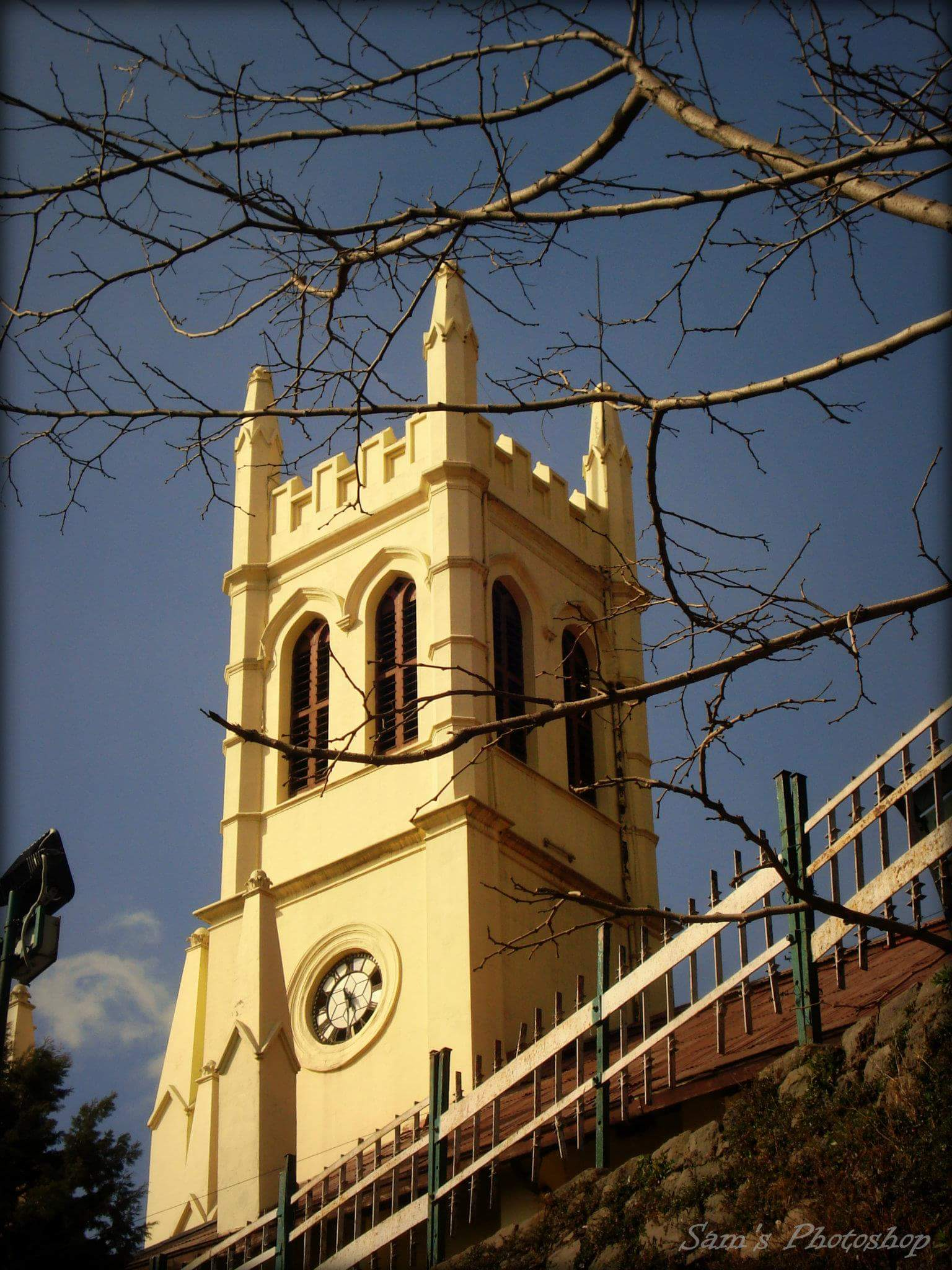 Side view of Christ Church Shimla (1) from Mall Road